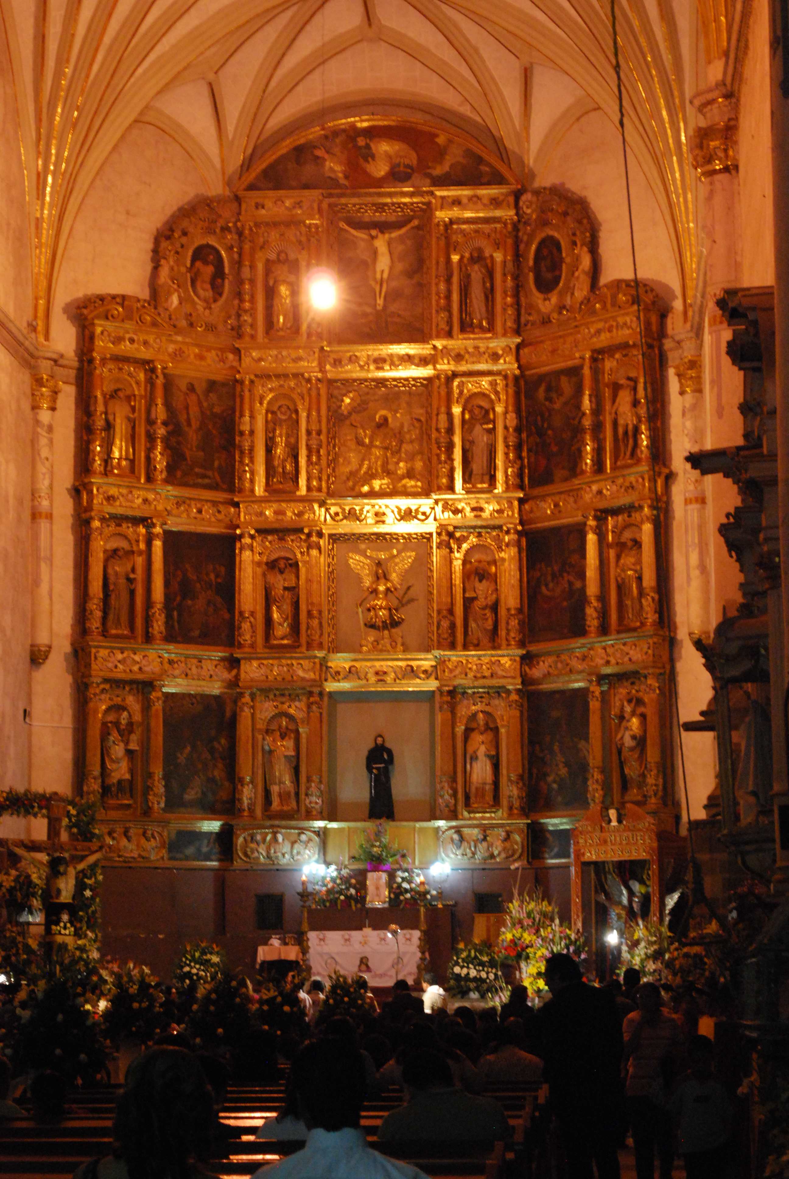 Main altar in the church of the San Miguel Arcangel monastery in Huejotzingo, Puebla, Mexico